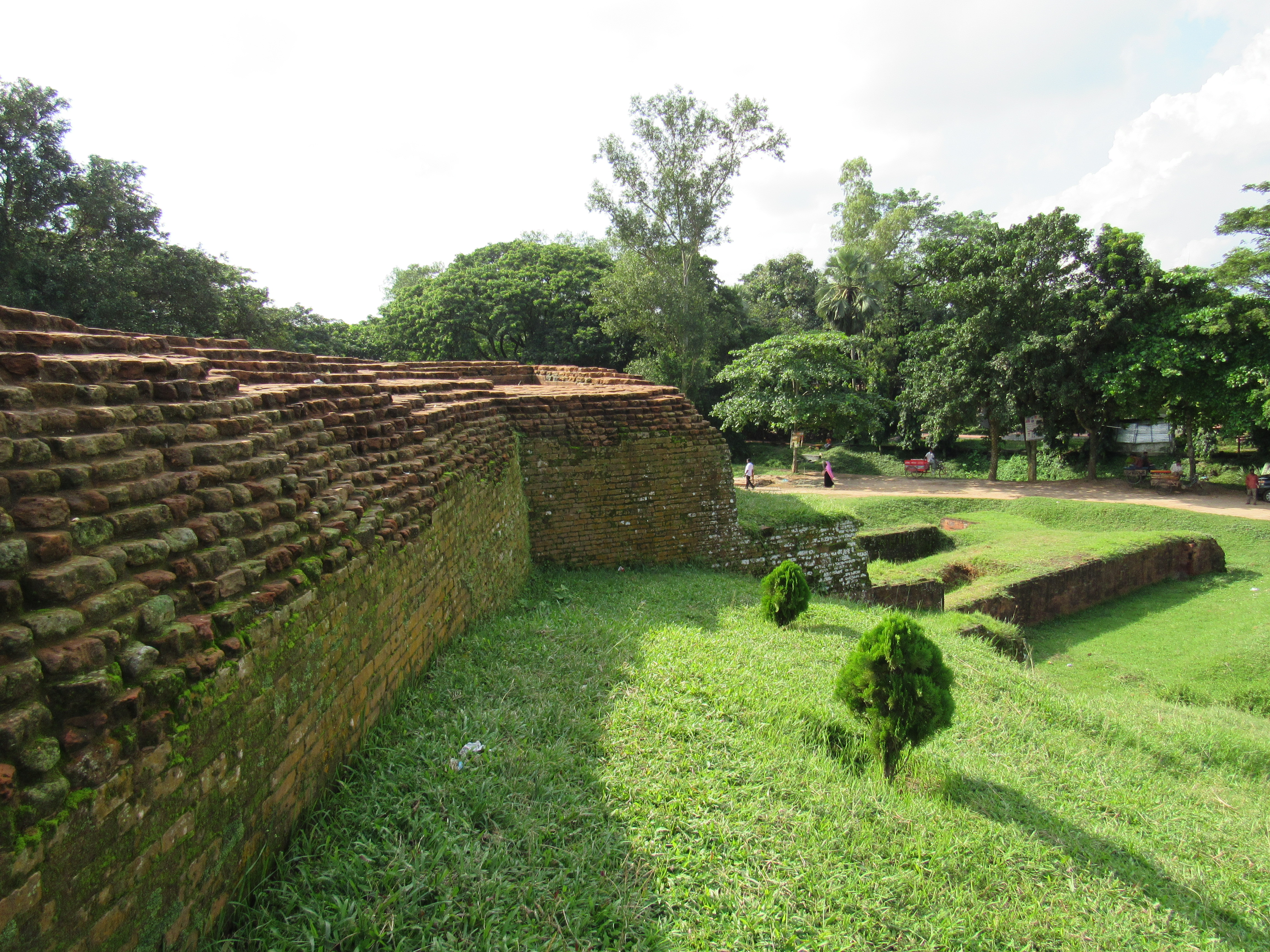 Mahasthangarh, Bogra, September 2016